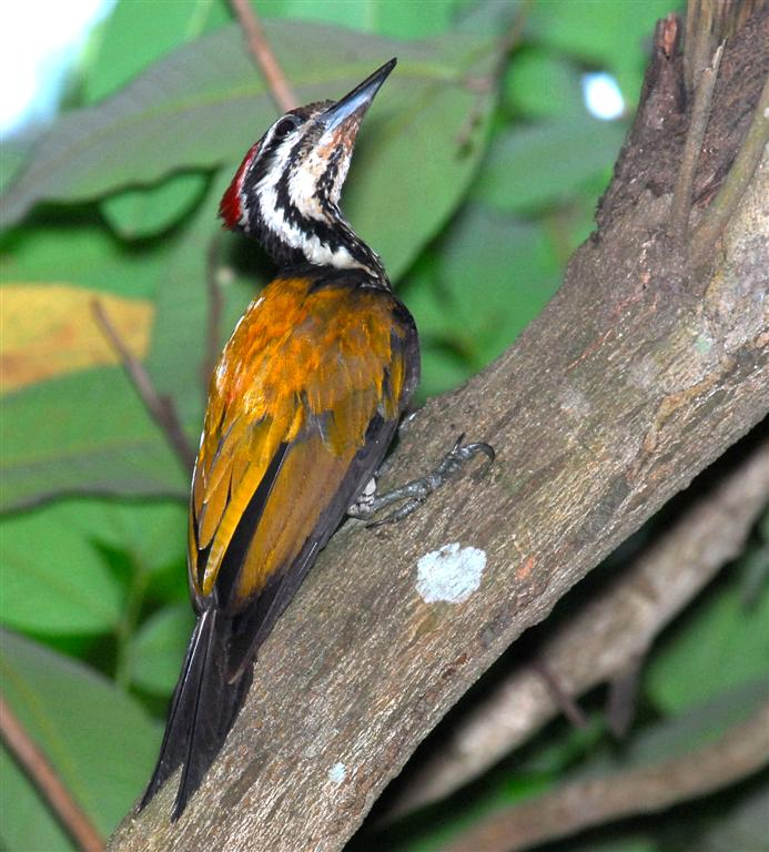 Common Flame-back Woodpecker (Dinopium javanense) at Nee Soon Forest (Singapore)